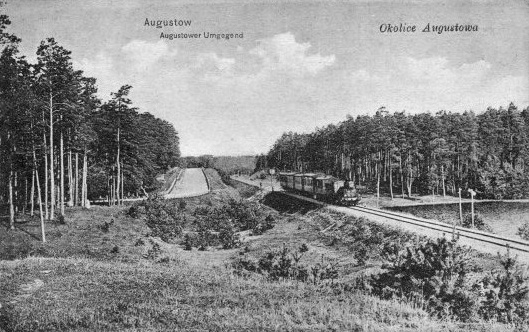 Railway and road in Augustów (Poland) beggining of 20th century (probably before 1914).